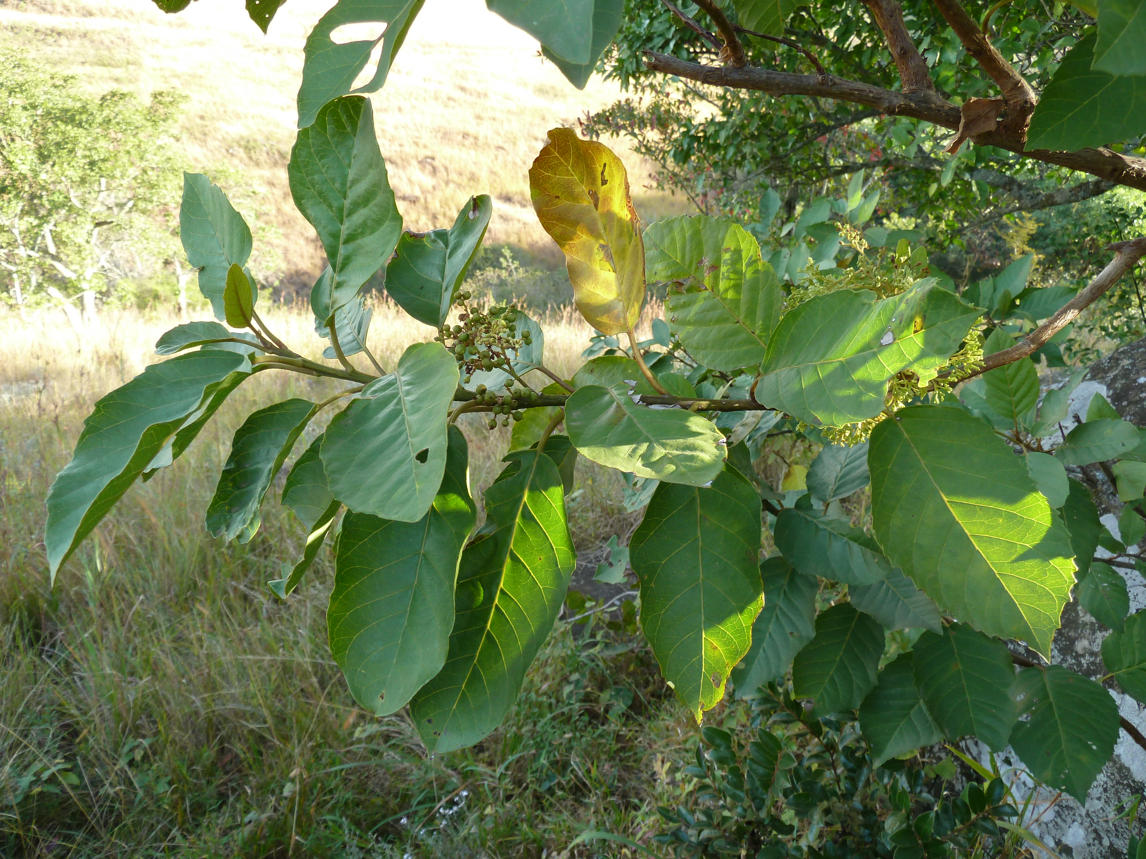 False assegai, side branch with fruit, near Louwsburg, KwaZulu-Natal. Note the spirally arranged, lance-shaped leaves to which its names refer, and the unripe fruit.